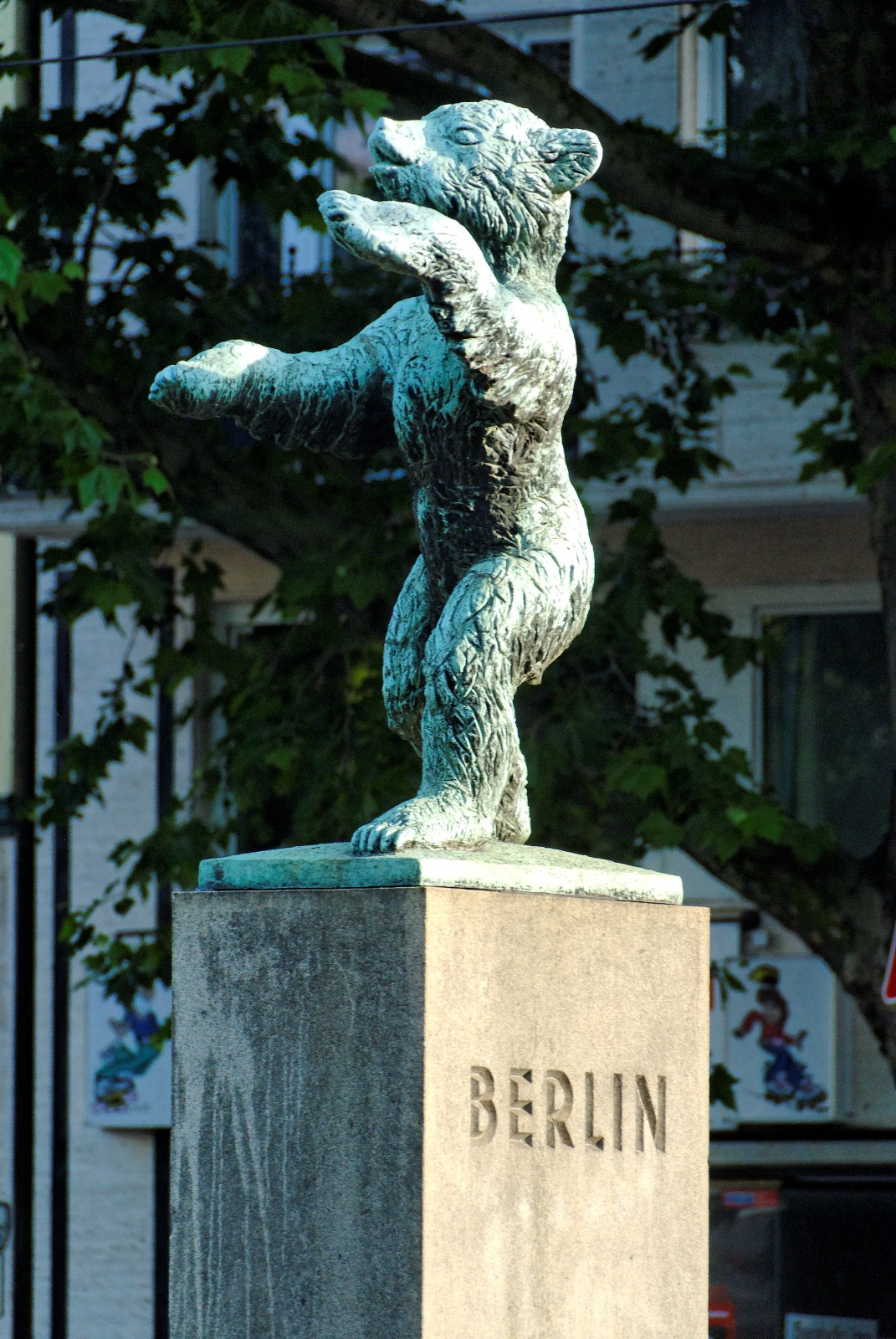 Bear statue at Berliner Allee in Düsseldorf-Friedrichstadt, Germany